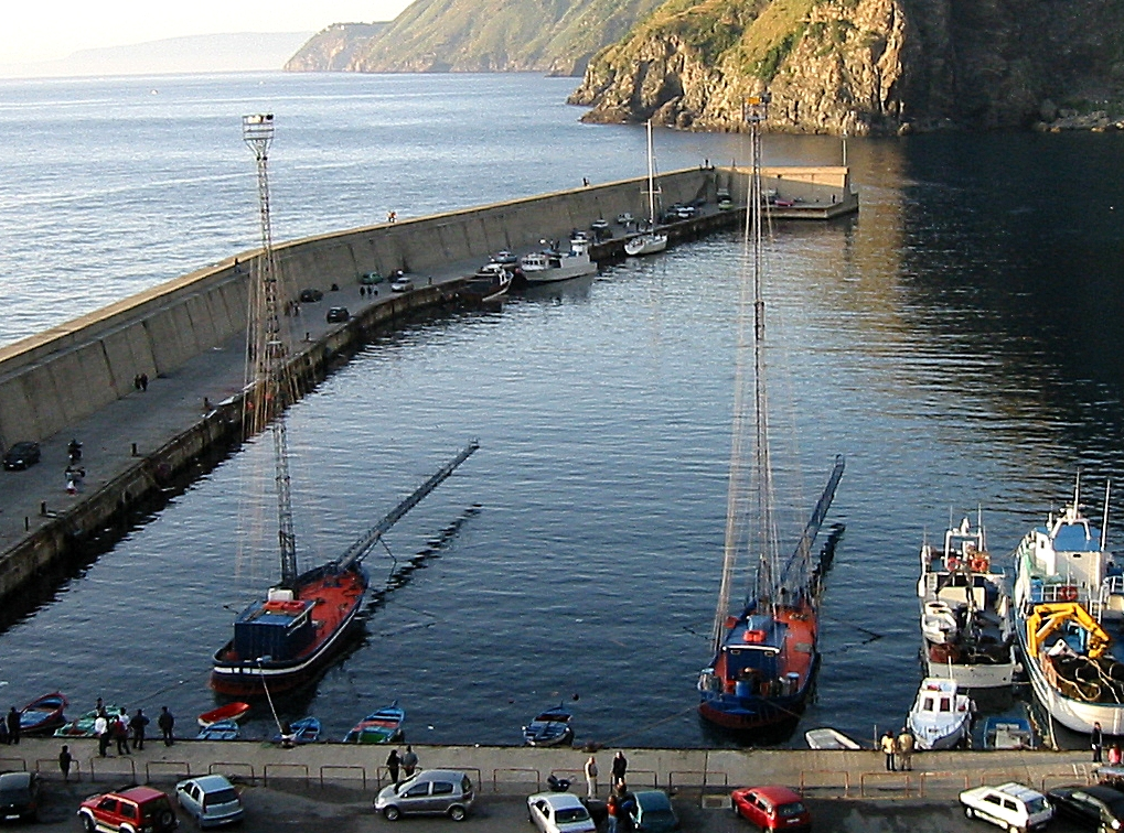 Two fishing boats specialized in swordfish-hunting in the harbour of Bagnara Calabra in Calabria, Italy.